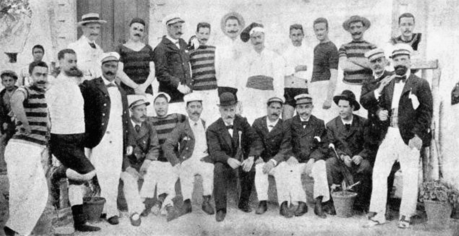 Associates of Portugal's Ginásio Figueirense club.